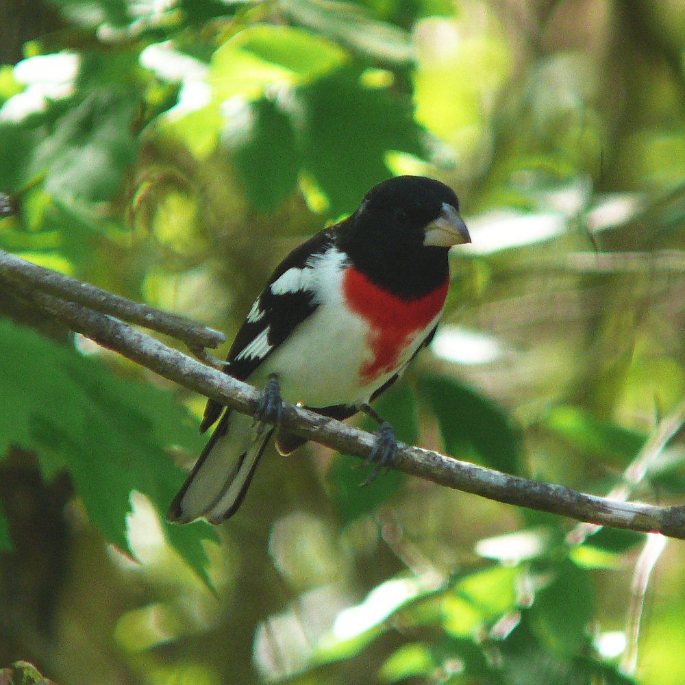 A Rose-breasted Grosbeak (Pheucticus ludovicianus).Photo taken with a Panasonic Lumix DMC-FZ50 in Johnston County, North Carolina, USA.